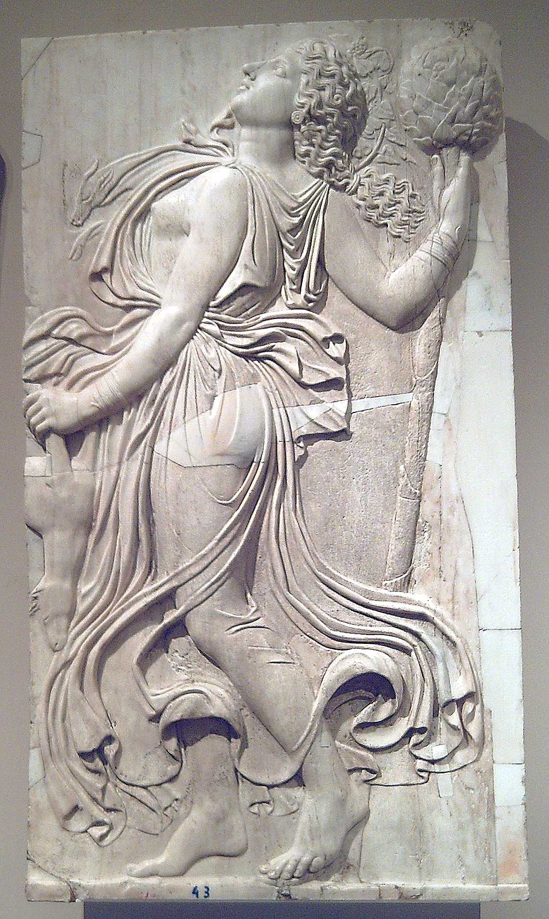 Roman relief showing a dancing maenad holding a thyrsus.